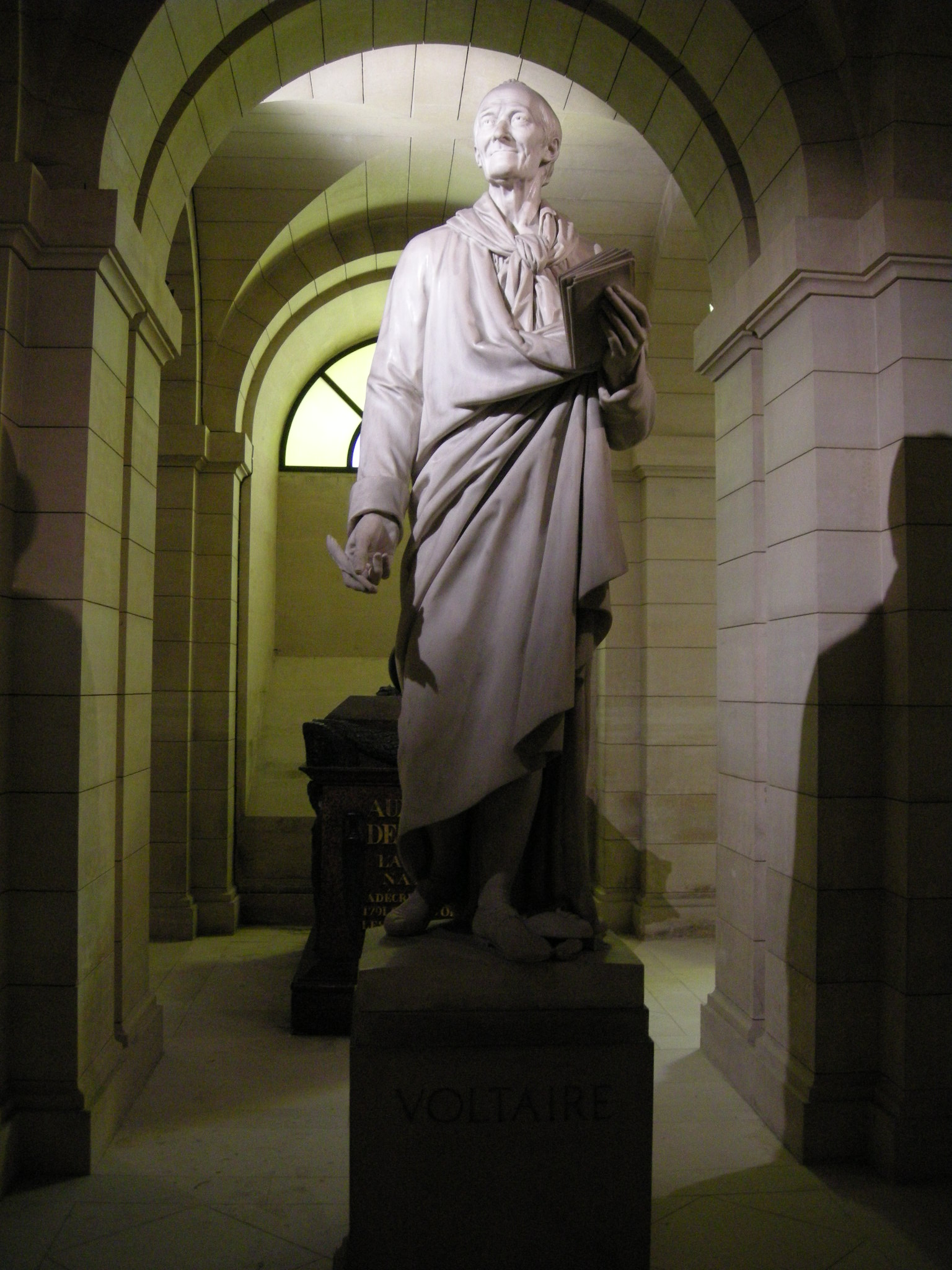 Tomb and statue of Voltaire in the Pantheon in Paris. Statue is by Jean-Antoine Houdon.[1]